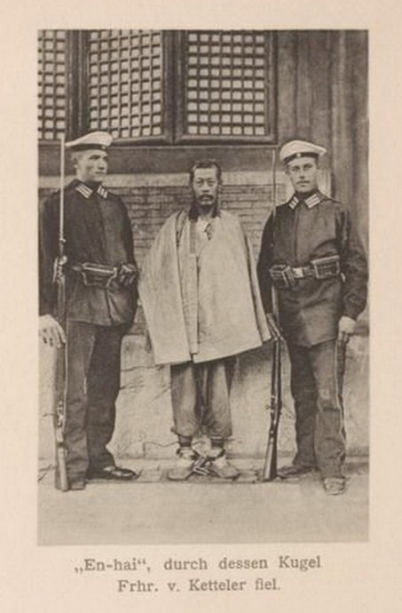 En Hai, the murder of Clemens von Ketteler